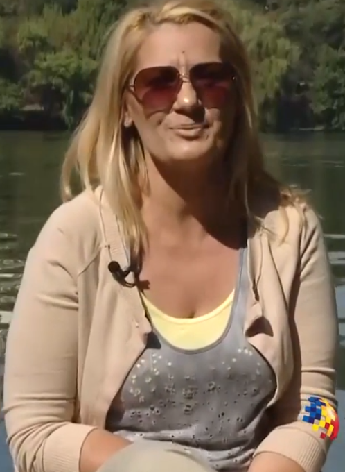 Nicola